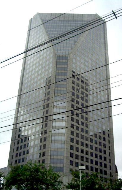 CENU